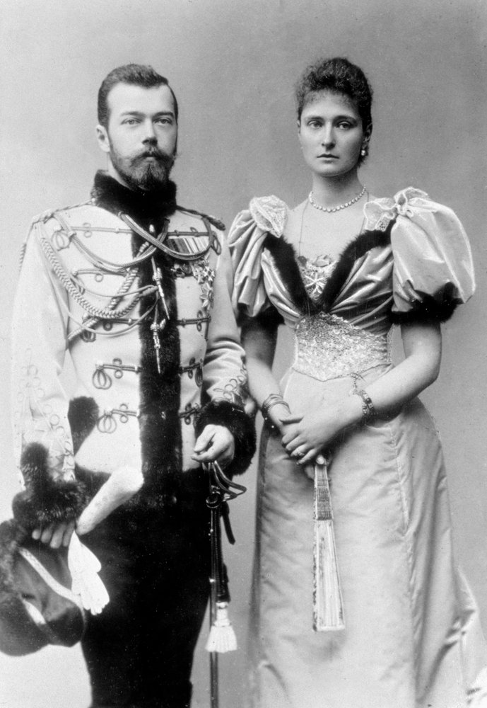 Emperor Nicholas II of Russia and Empress Alexandra Fyodorovna.